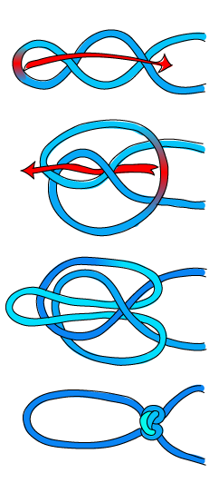 The image shows how to tie the Alpine butterfly knot.